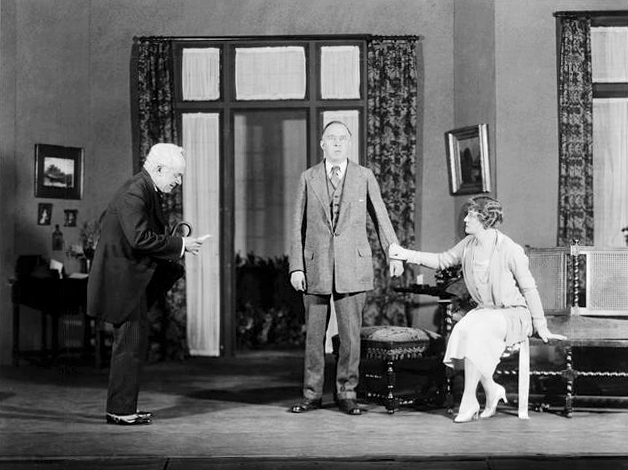 Photograph of a scene from the Theatre Guild production of A. A. Milne's Mr. Pim Passes By (1921) with (left to right) Erskine Sanford (Carraway Pim), Dudley Digges (George Marden, J. P.) and Laura Hope Crews (Olivia)